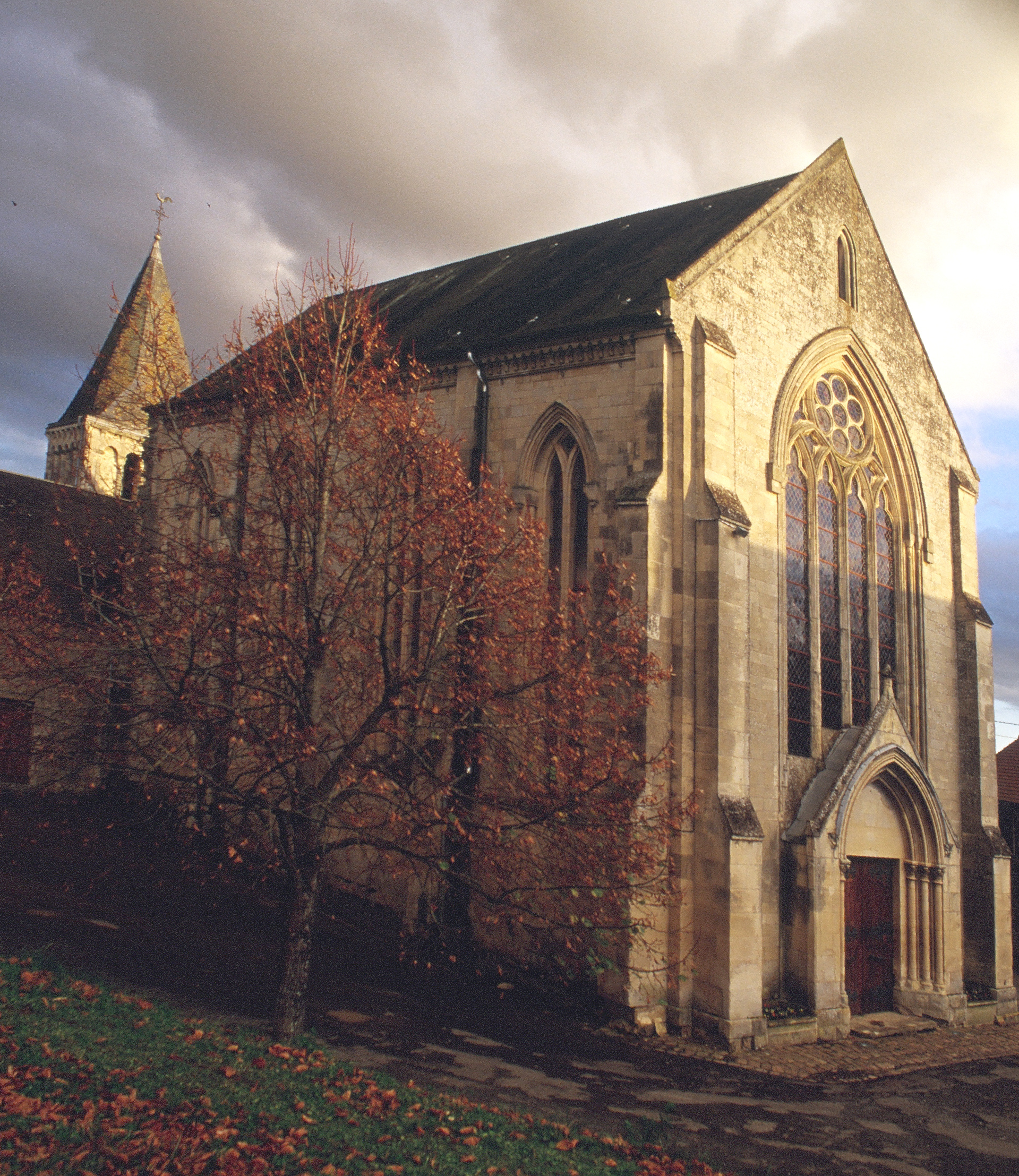 Church Notre-Dame of Clinchamps-sur-Orne